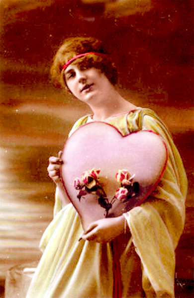 Early 20th century Valentine's Day card, showing woman holding heart shaped decoration and flowers, scanned from period card from ca. 1910 with no notice of copyright.